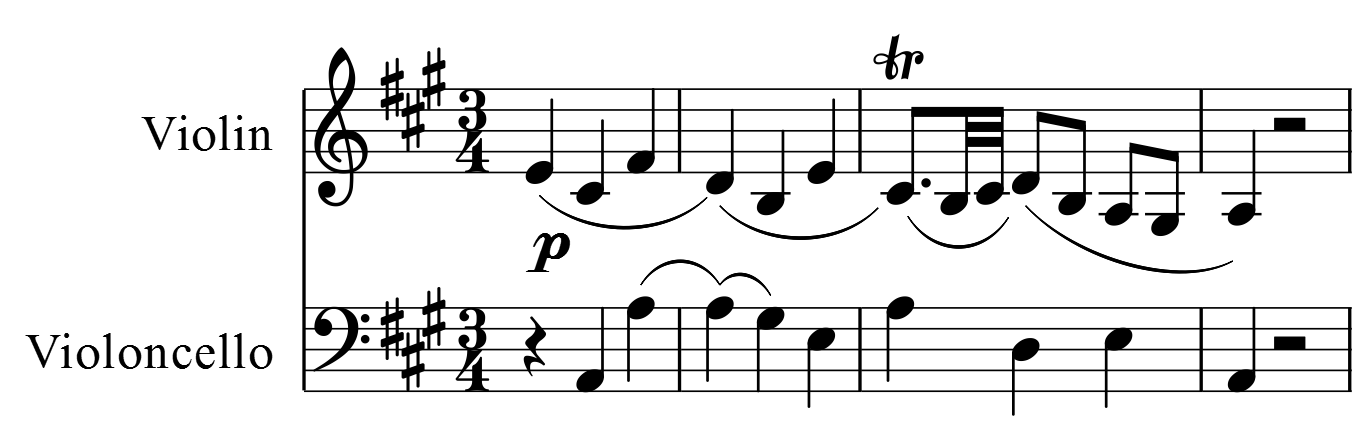 Joseph Haydn, Symphony No. 21, first movement, bar 1-4